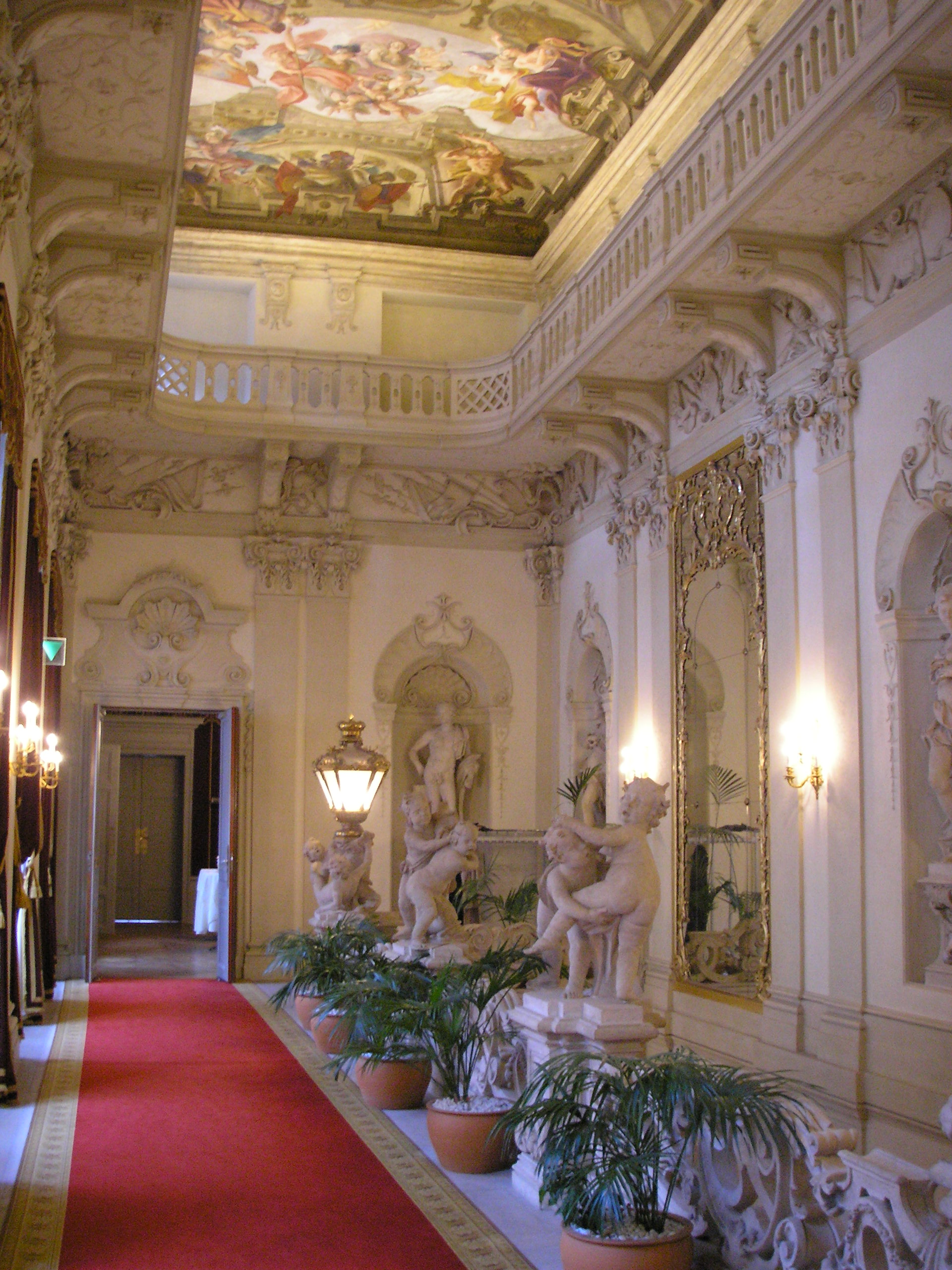 Grand staircase of the Palais Kinsky in Vienna, at the Freyung. The palace was owned by the noble Kinsky von Wichnitz und Tettau comital family. It was constructed during the baroque age as a Stadtpalais (city-palace).